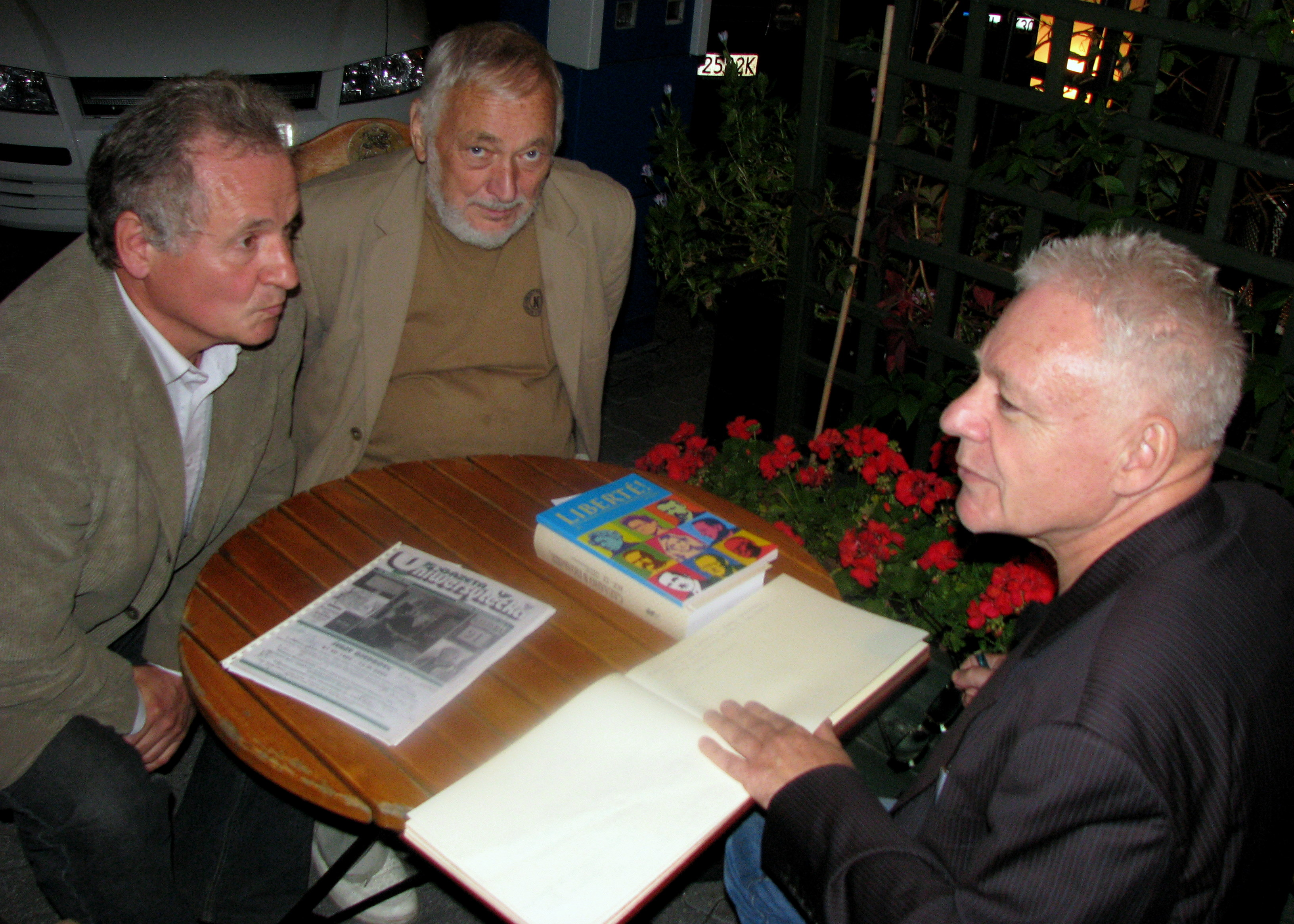 Zbigniew Bujak (b. 1954) - Polish politician, and Jerzy Surdykowski (b. 1939) - Polish writer, diplomat and politician, and Tomasz Jastrun (b. September 15, 1950 in Warsaw, Poland) - Polish writer, essayist and publicist. Son of Polish writers: Mieczyslaw Jastrun (1903-1983) and Mieczyslawa Buczkowna (1924-2015). He lives in Warsaw, Poland